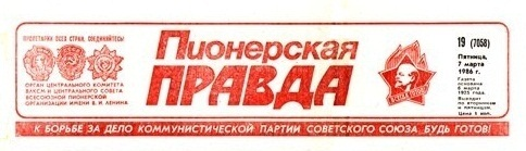 Logo newspapers Pionerskaya Pravda. (The main newspaper of the Pioneer Organization of the Soviet Union)